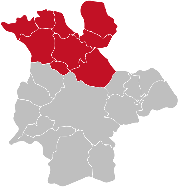 Outline of the former city Hüttental now a part of Siegen, Germany. Red/Grey colors match the color scheme of Germany maps and information boxes in German Wikipedia. Former city is highlighted in red.